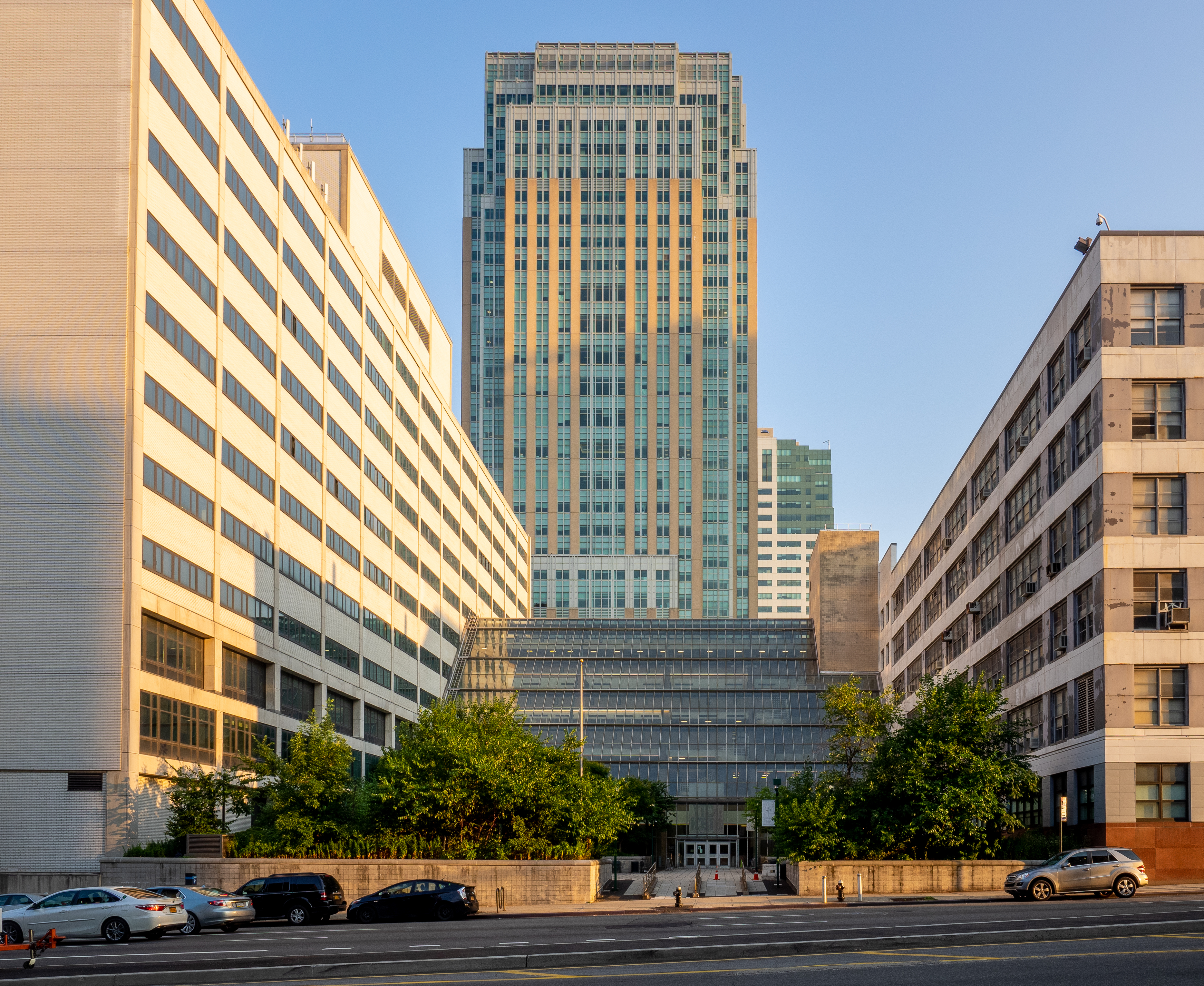 Downtown Brooklyn, Brooklyn, New York City